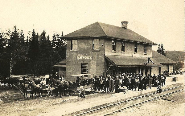 View of the Maynooth, Ontario railway station in 1907.